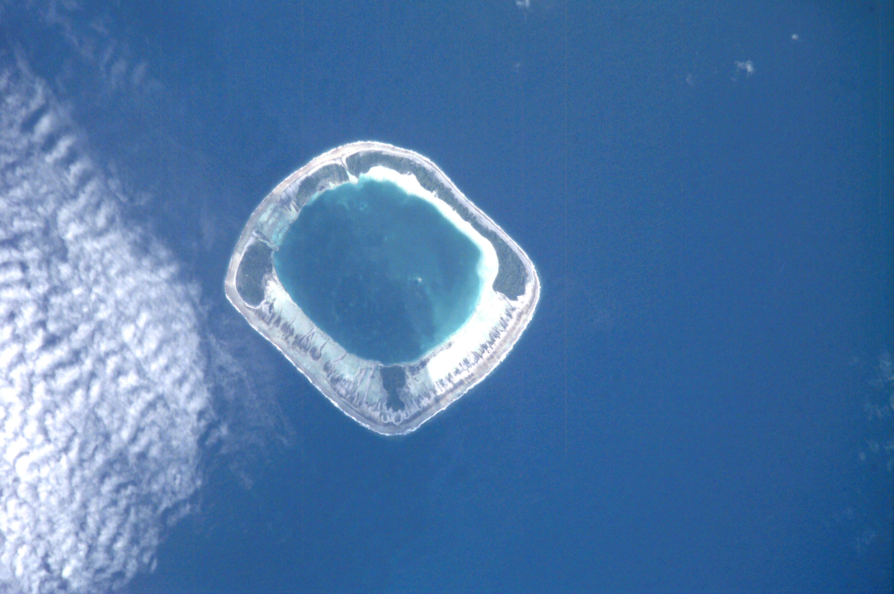 NASA astronaut image of Tauere Atoll (Tuamotu Archipelago, French Polynesia) in the Pacific Ocean